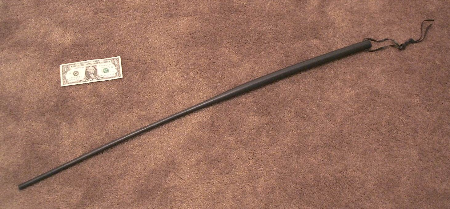 A 3' (90cm) plastic Sjambok, similar to the type used by South African police. I, User:OwenX, photographed this on 30 December 2005 in Mississauga, Ontario, Canada using a Fujifilm FinePix F440 digital camera. I am hereby licensing this image to the Wikimedia Foundation in perpetuity under the terms of GFDL.